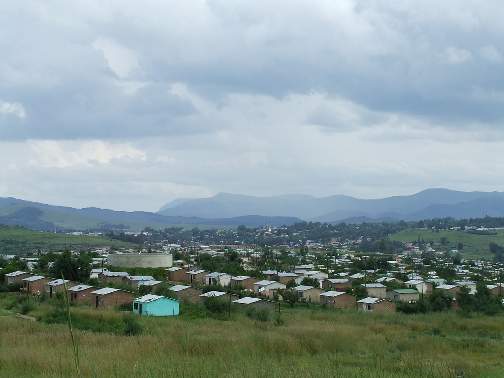 Stopped near Kokstad for lunch at Wimpy Bar in Engen petrol station near where N2 meets road into Kokstad town centre. This photo is taken as I stopped while skirting southern slopes of Mount Currie on R617 just to north of Kokstad on my way to Swartberg Kingscote & Underberg. Check of Garmap's Africa Topo & Rec shows housing marked as "Mt Currie Outlying". Mountains in distance known as "Nolangeni" at 2,016 m and lies beyond Brooks Nek Pass where N2 passes down into Eastern Cape Province then onto Mt Ayliff & Umtata. Road (R56) to Matatiele & Qachas Nek border into Lesotho heads off to right of picture while Kwazulu Natal coast is away to left through Staffords Post and Harding. Kokstad gets very cold and isolated by snowfalls in winter months.